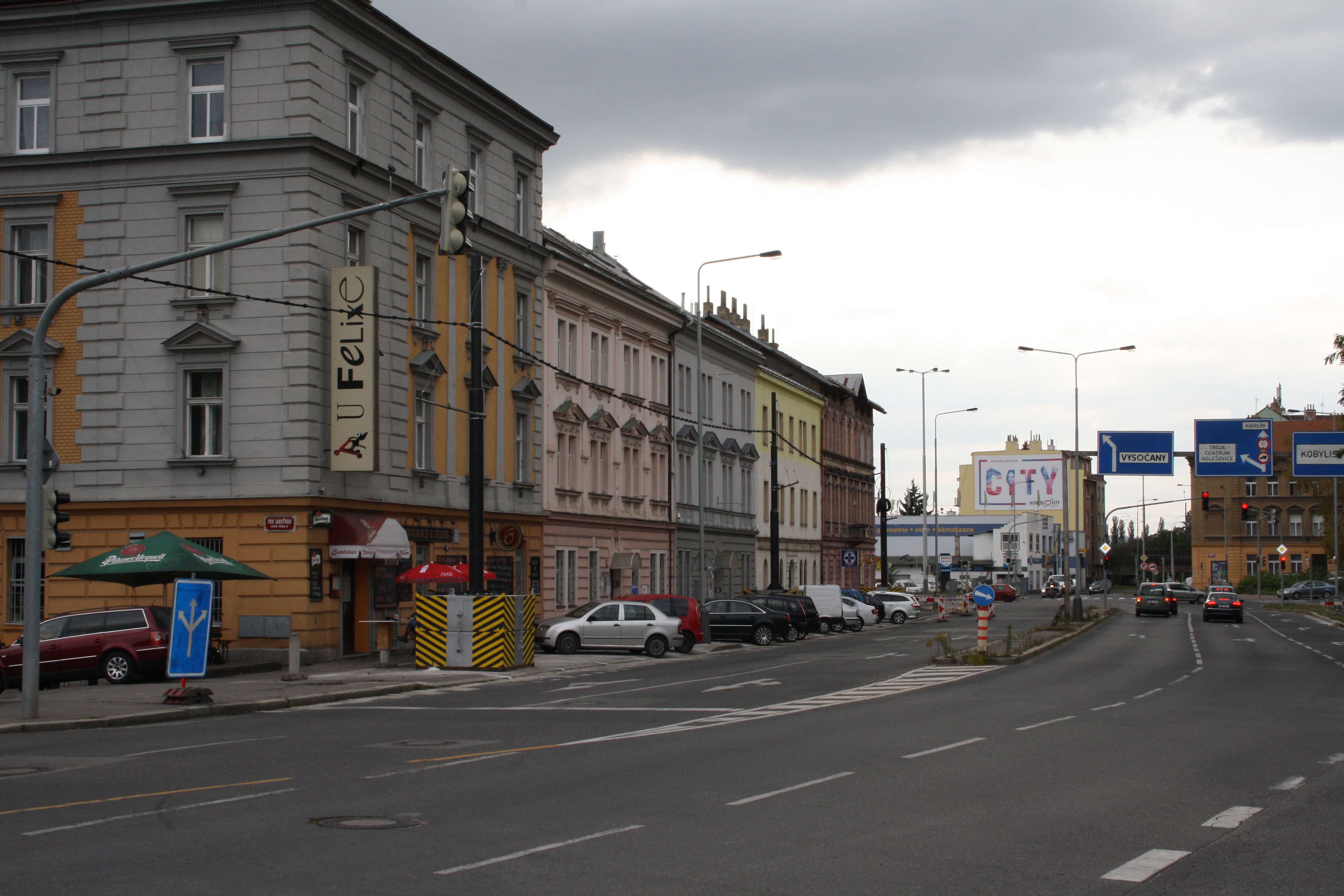 Prague, Prosecka, future trolleybus line